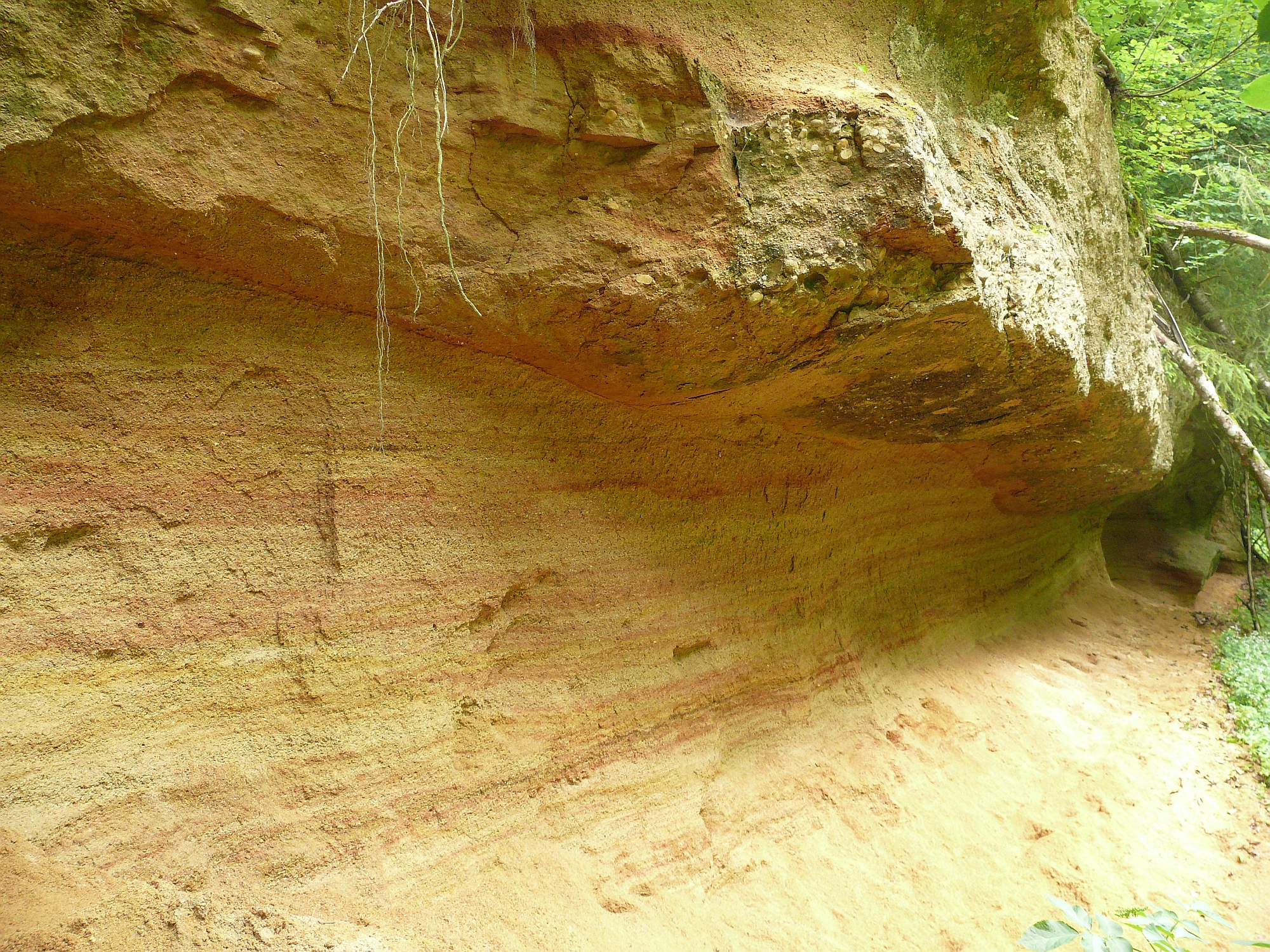 “Graupensand”, a sandy deposit, overlain by “Austernnagelfluh”, a conglomerate, at the former quarry at Riedern am Sand (near Waldshut, Germany and Schaffhausen, Switzerland). Both units are part of the fill of the late Early Miocene “Graupensandrinne” (something like an “incised valley”). The 10 km wide paleo-valley at the northwestern margin of the North Alpine Fore-land Basin has already been filled up in Miocene times and is now morphologically invisible. While the “Graupensand” (Grimmelfingen beds) is present throughout the “Graupensandrinne”, the “Austernnagelfluh” only occurs in its southwestern part, where it interfingers with the “Graupensand”.